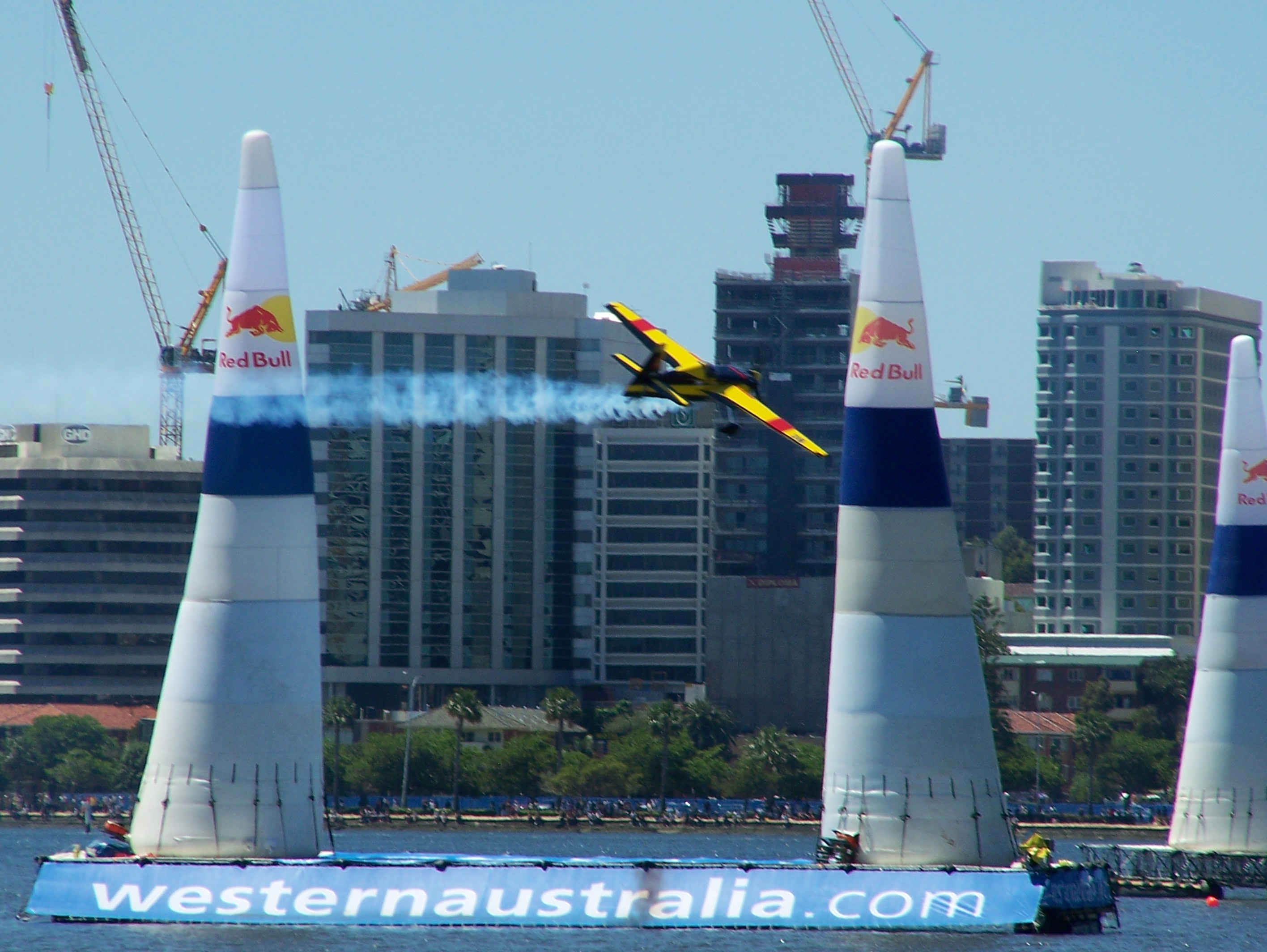 Red Bull Air Race Perth 07